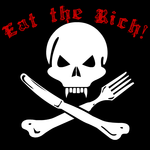 "Eat the Rich" symbol: Skull-and-crossbones, with bones turned into knife and fork. Text "Eat the Rich" splashed across top.